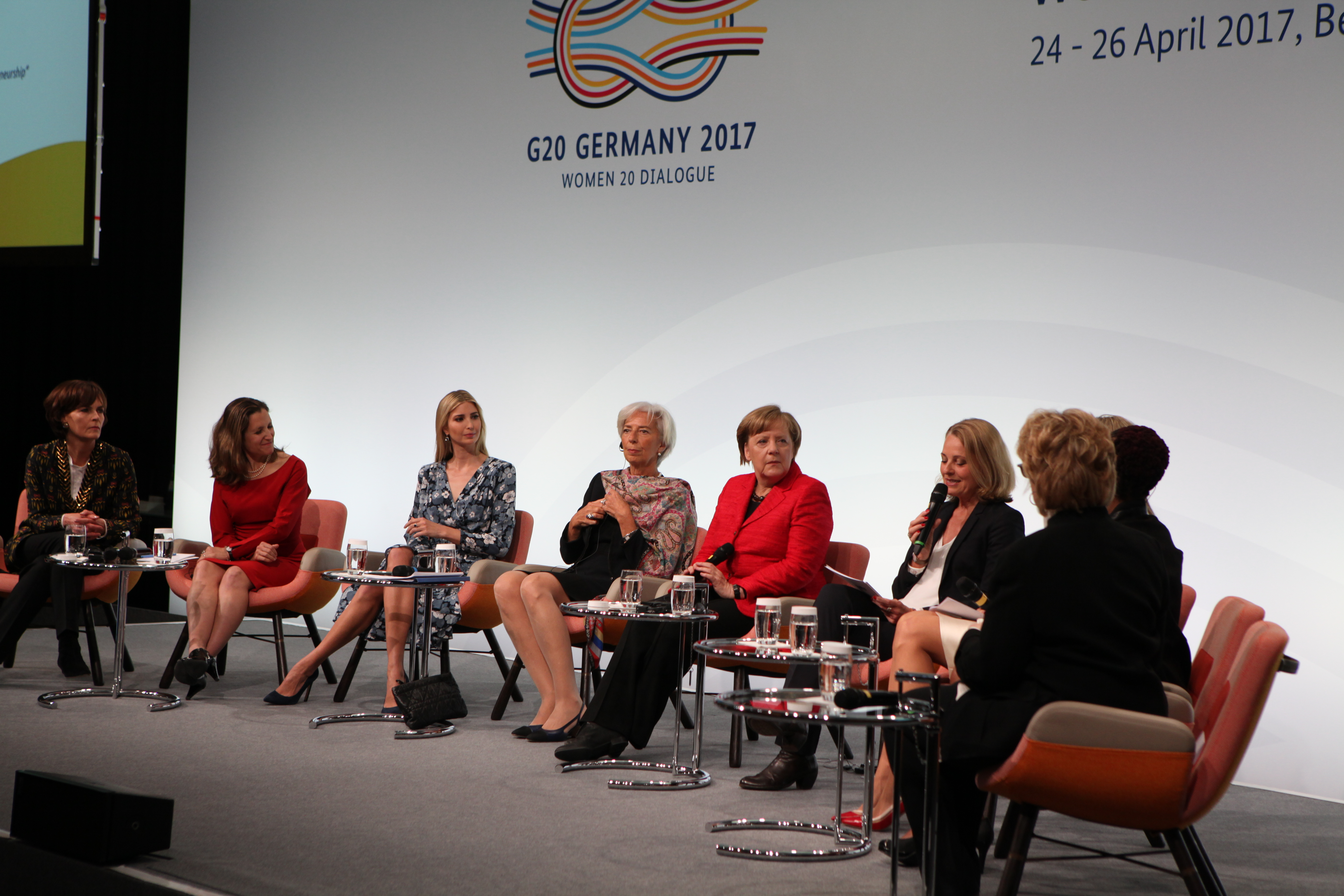 W20 Conference: Panel - Inspiring women: Scaling up women’s entrepreneurship